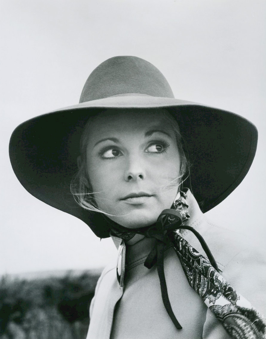 Photo of Susan Saint James from her role in the television program The Name of the Game.